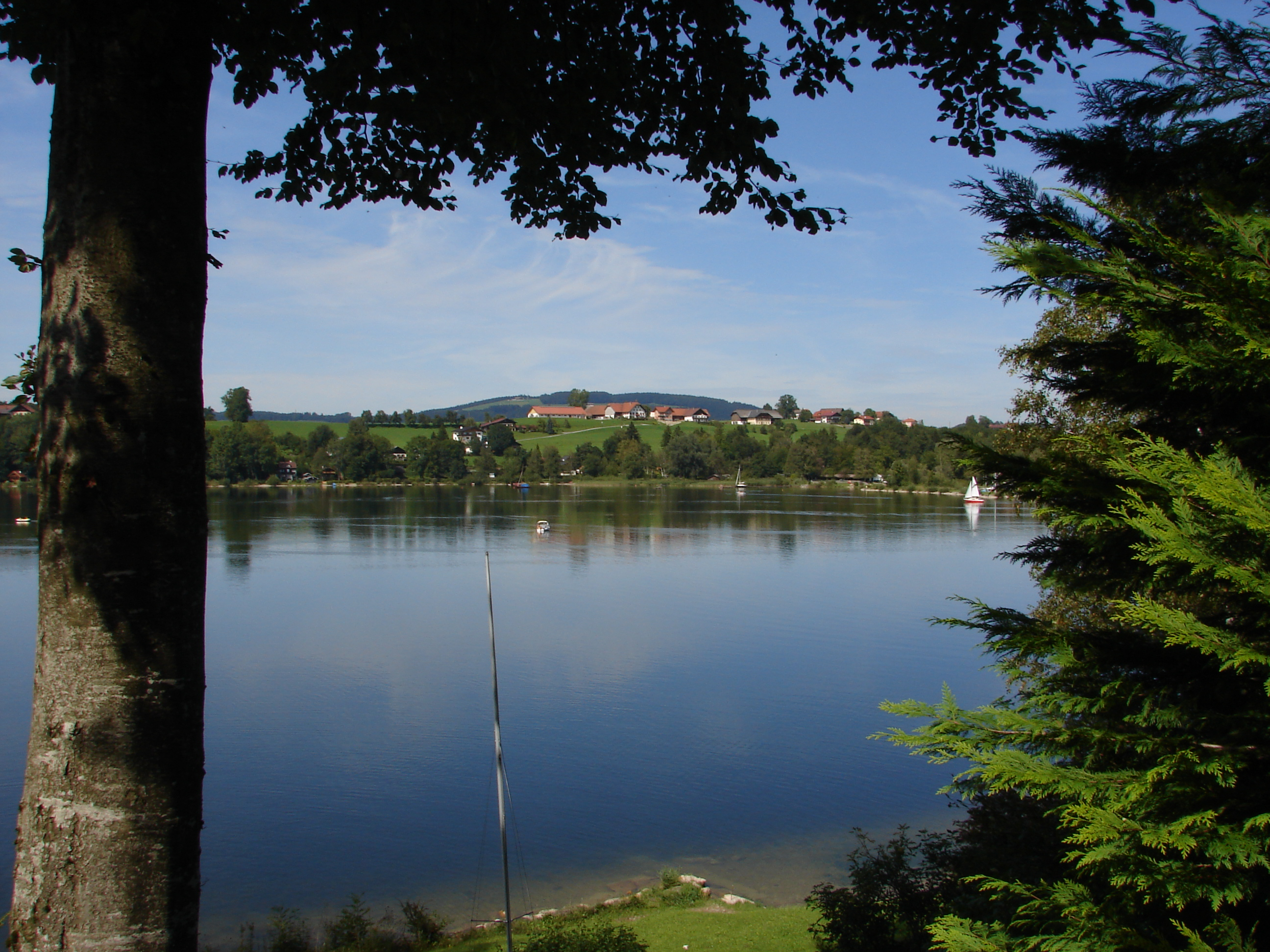 Eastern bay of lake Wallersee, state of Salzburg, Austria; in the background: Schalkham (municipality of Neumarkt am Wallersee)